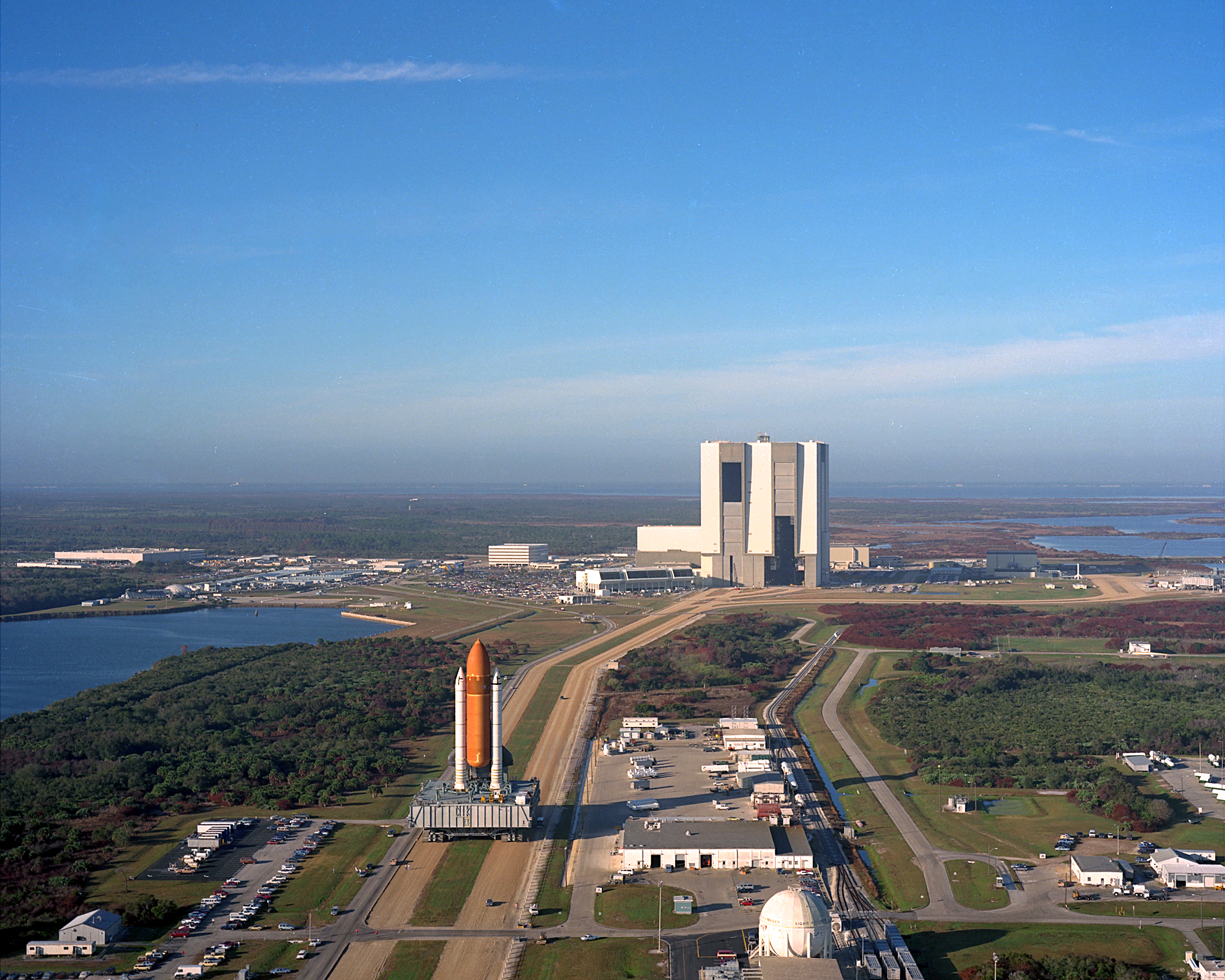 The STS-36 vehicle and launch platform were rolled out to Launch Pad 39A on January 25 after the shortest stay in the Vehicle Assembly Building since return-to-flight. The distance between the VAB and Pad 39A is about 3.4 miles. Atlantis is being prepared for launch on Mission STS-36 dedicated to the Department of Defense. Launch is currently targeted for February 22.